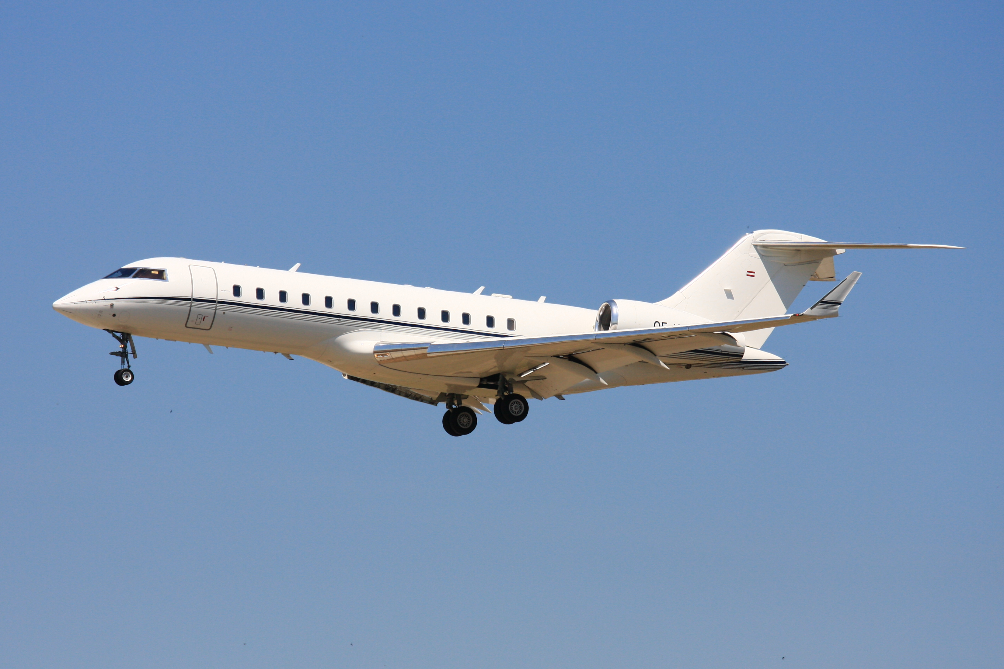 A Bombardier Global Express of Tyrolean Jet Services landing at Frankfurt Airport